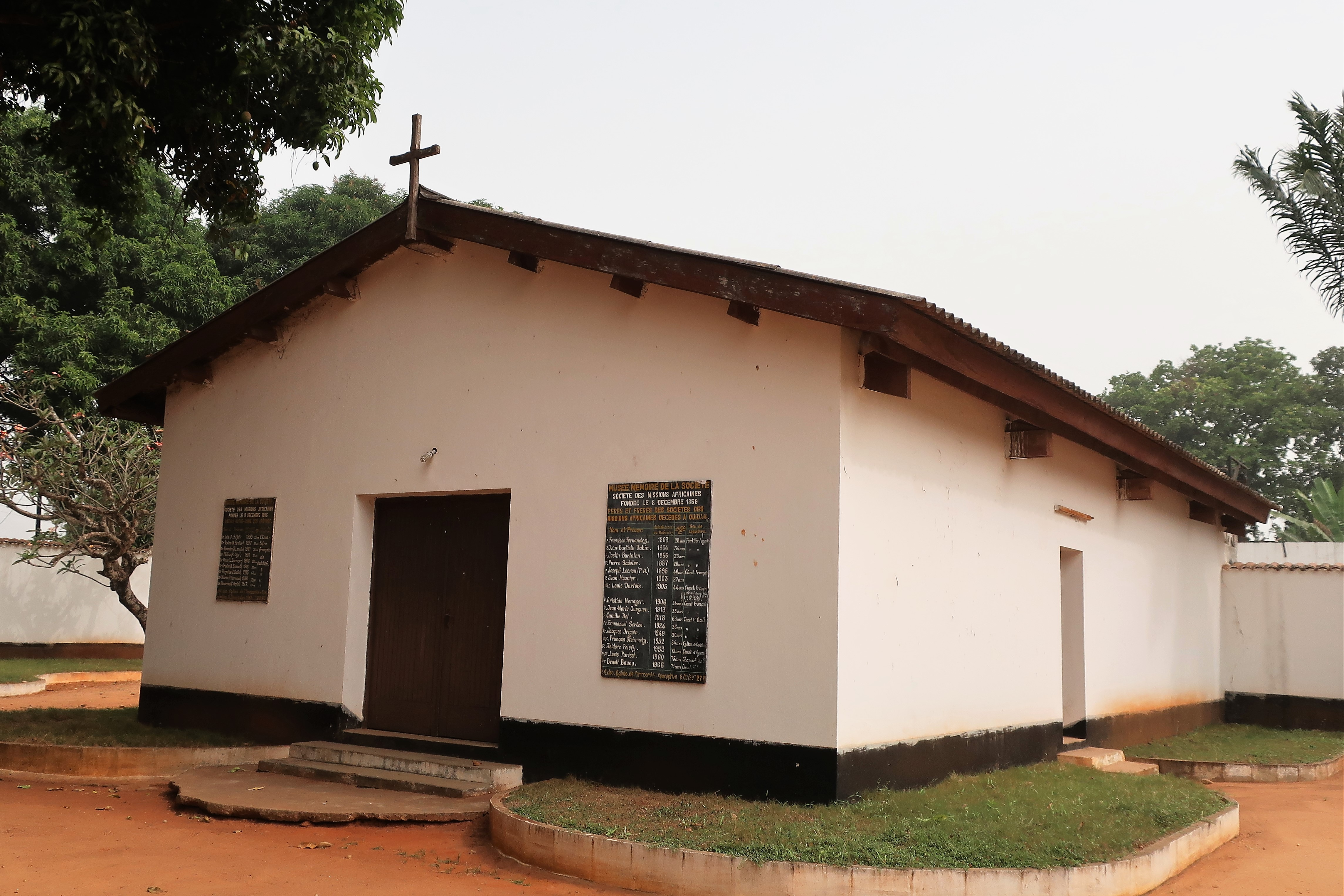 Chapel in Historical museum of Ouidah, Benin in January 2018.